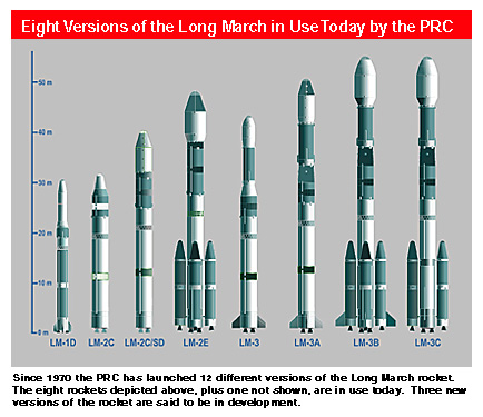 CZ Chinese rockets